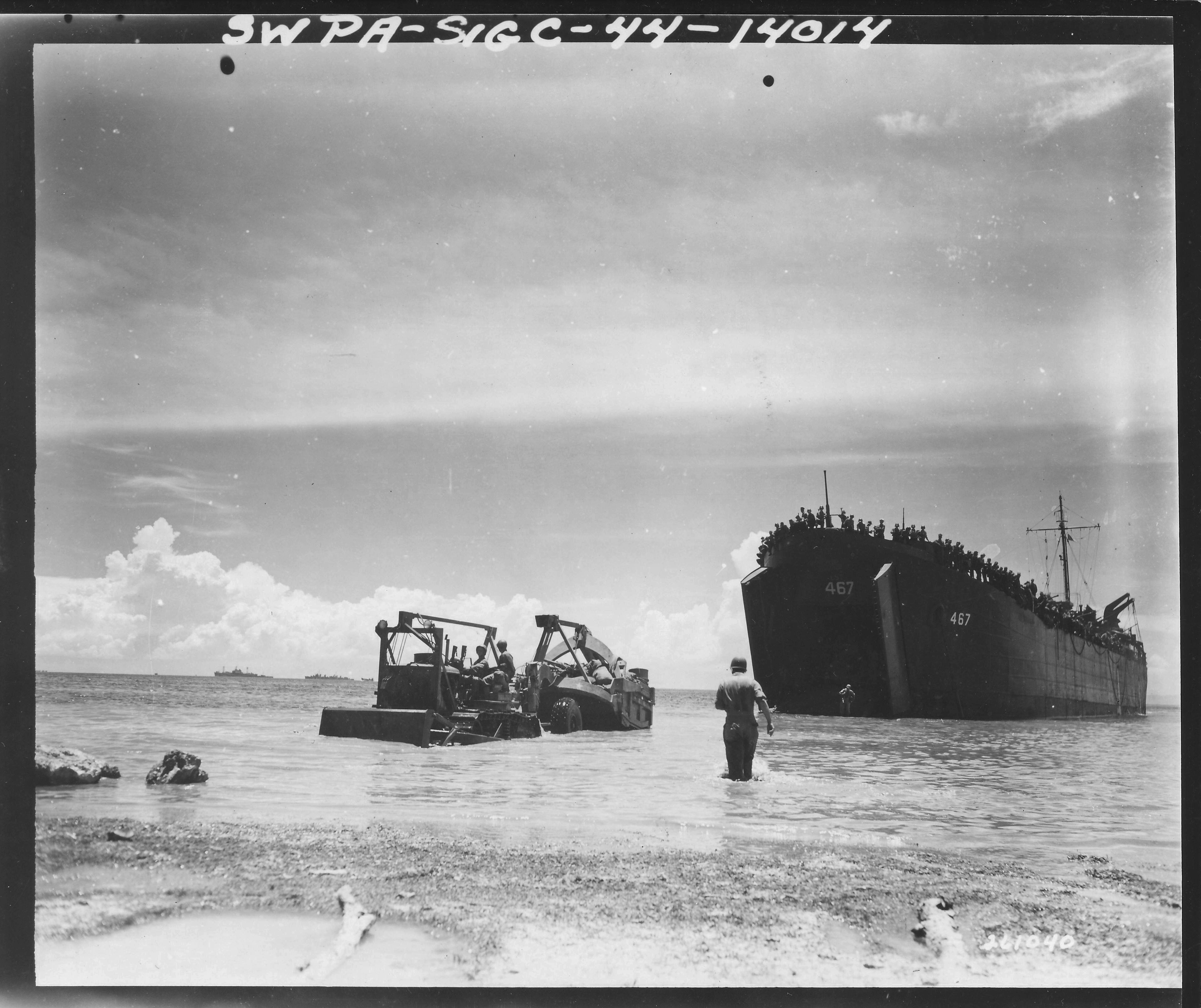 USS LST-467 beached at Morotai, Netherlands East Indies, 15 September 1944, as an armored bulldozer makes its way through the water in order to reach the jungle where a road will be built leading to an airstrip. US Army Signal Corps photo # SC 261040, by T/SGT Henry Palm, now in the collections of the US National Archives.